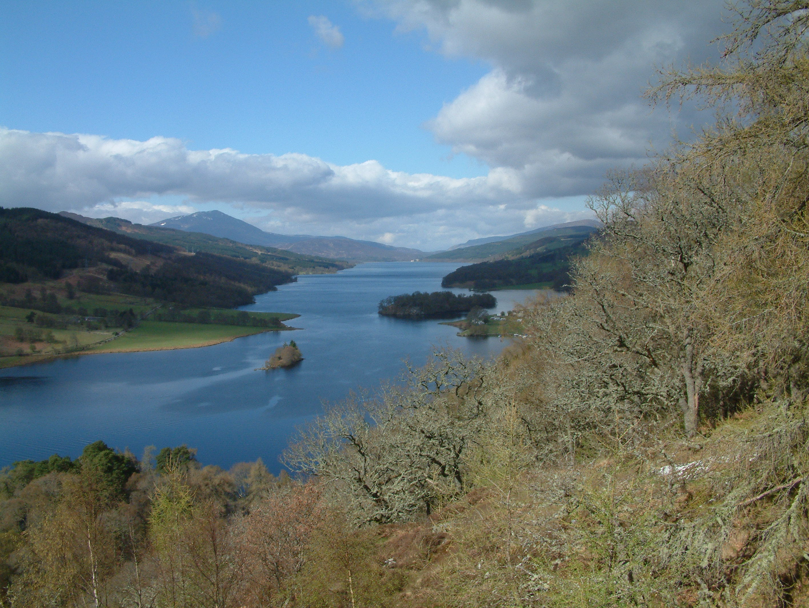 Queen's View, Loch Tummel